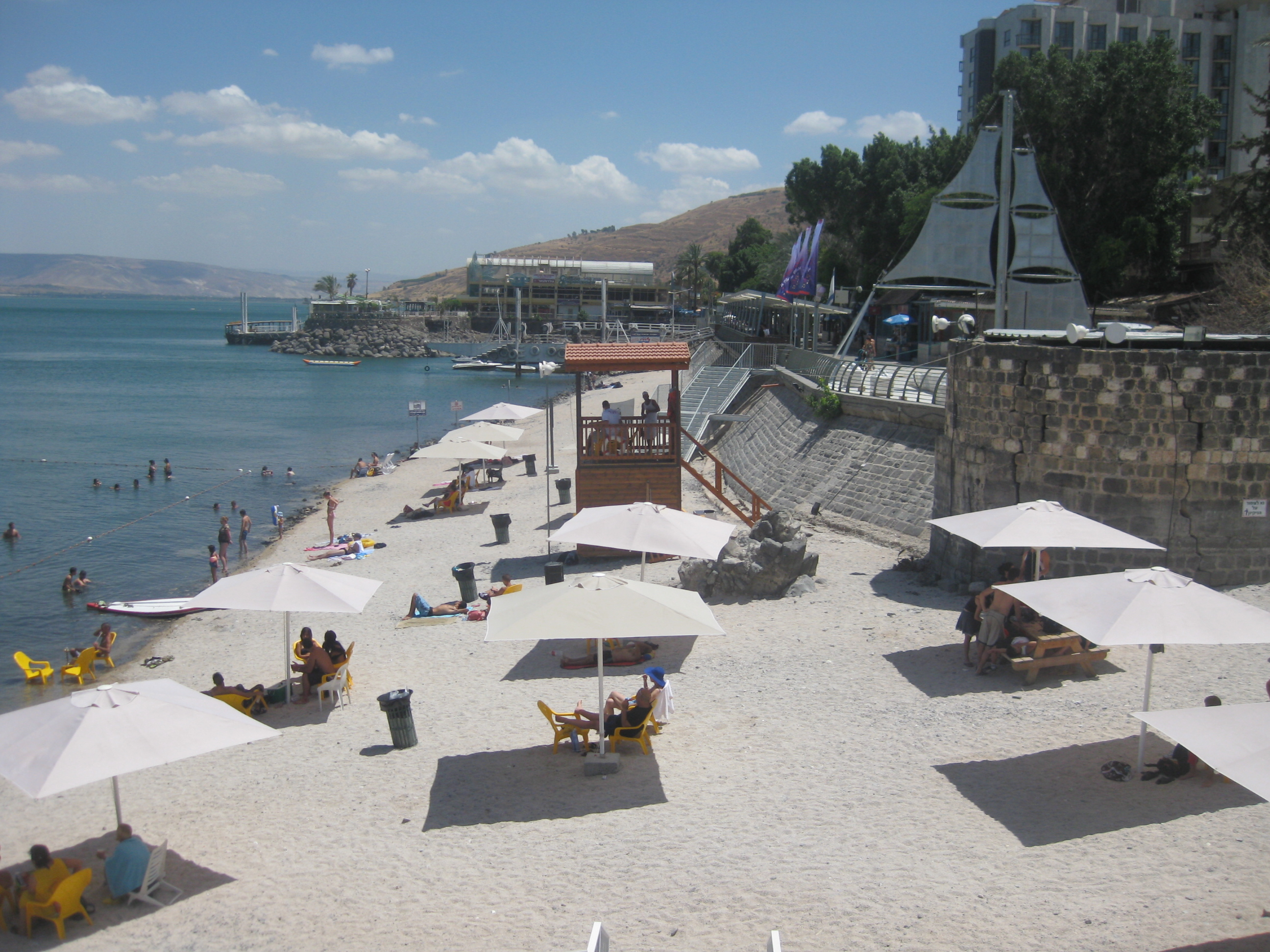 Promenande Beach Tiberias